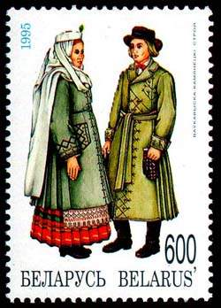 Volkovysk-Kamenets Stroj stamp